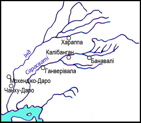 Map of Indus Civilisation